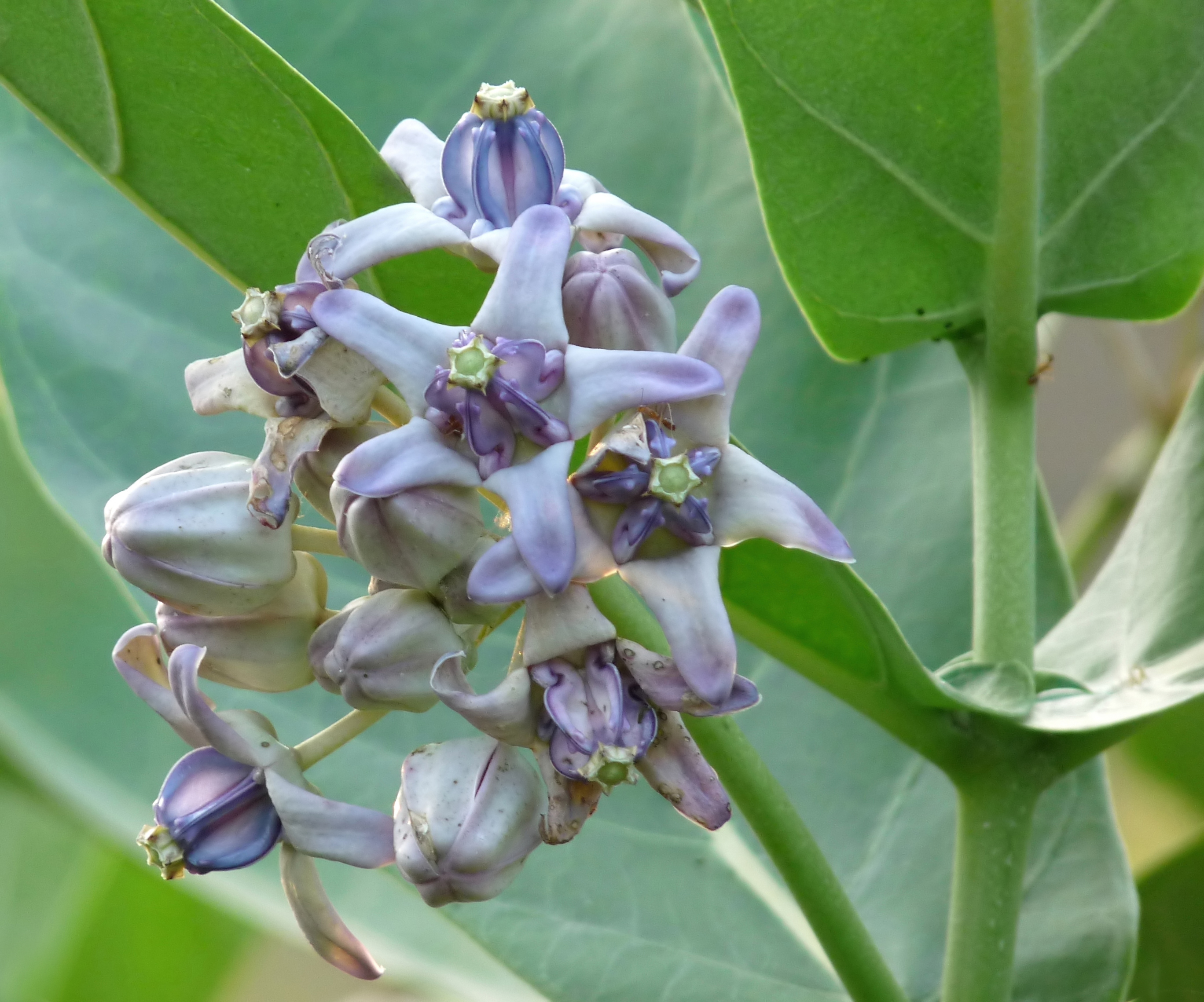 Calotropis gigantea (Crown flower) is a species of Calotropis native to Cambodia, Indonesia, Malaysia, Philippines, Thailand, Sri Lanka, India and China. It is a large shrub growing to 4 m tall. It has clusters of waxy flowers that are either white or lavender in colour. Each flower consists of five pointed petals and a small, elegant "crown" rising from the centre, which holds the stamens. The plant has oval, light green leaves and milky stem. The latex of Calotropis gigantea contains cardio glycosides, volatile fatty acids and calcium oxalate. The fruit is a follicle and when dry, seed dispersal is by wind. The seeds with a parachute of hairs, is a delight for small children, who like to blow it and watch it float in the air. This plant plays host to a variety of insects and butterflies. Taken at Kudayathoor, Kerala, India. Previously published at Crown flower